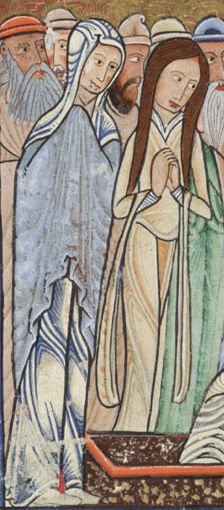 Two women from "The Raising of Lazarus", folio 11v, detail from the Hunterian Psalter, Glasgow University Library MS Hunter 229 (U.3.2)